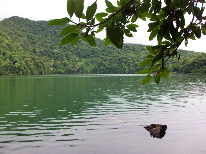 the lake Bulusan in the Philipines